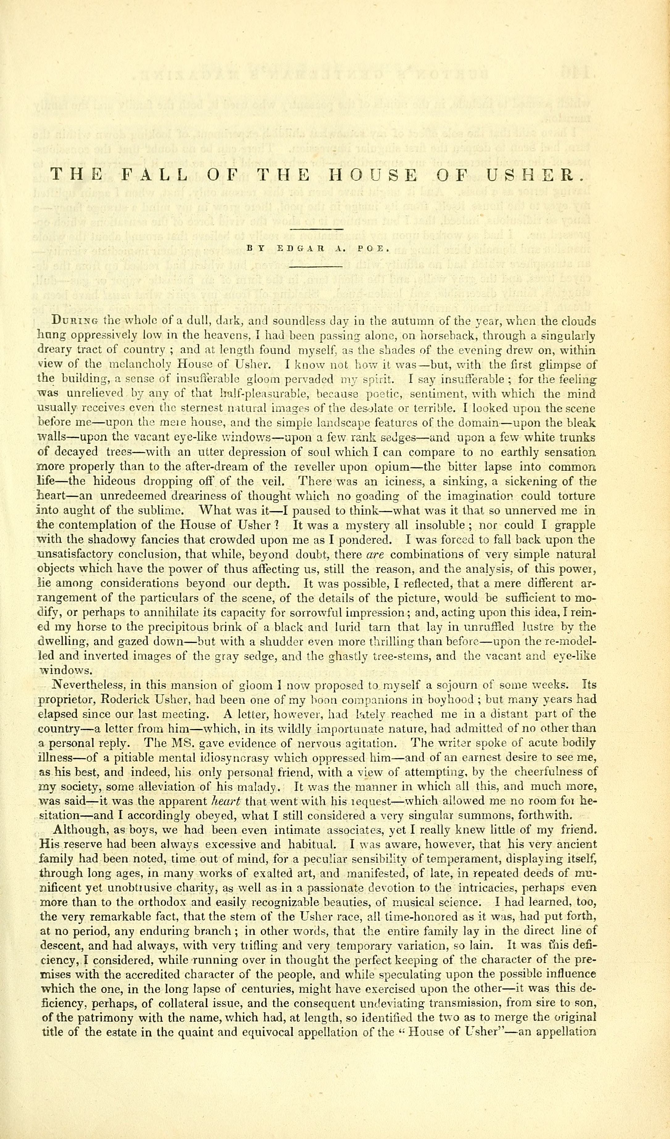 First page of the first appearance of "The Fall of the House of Usher"